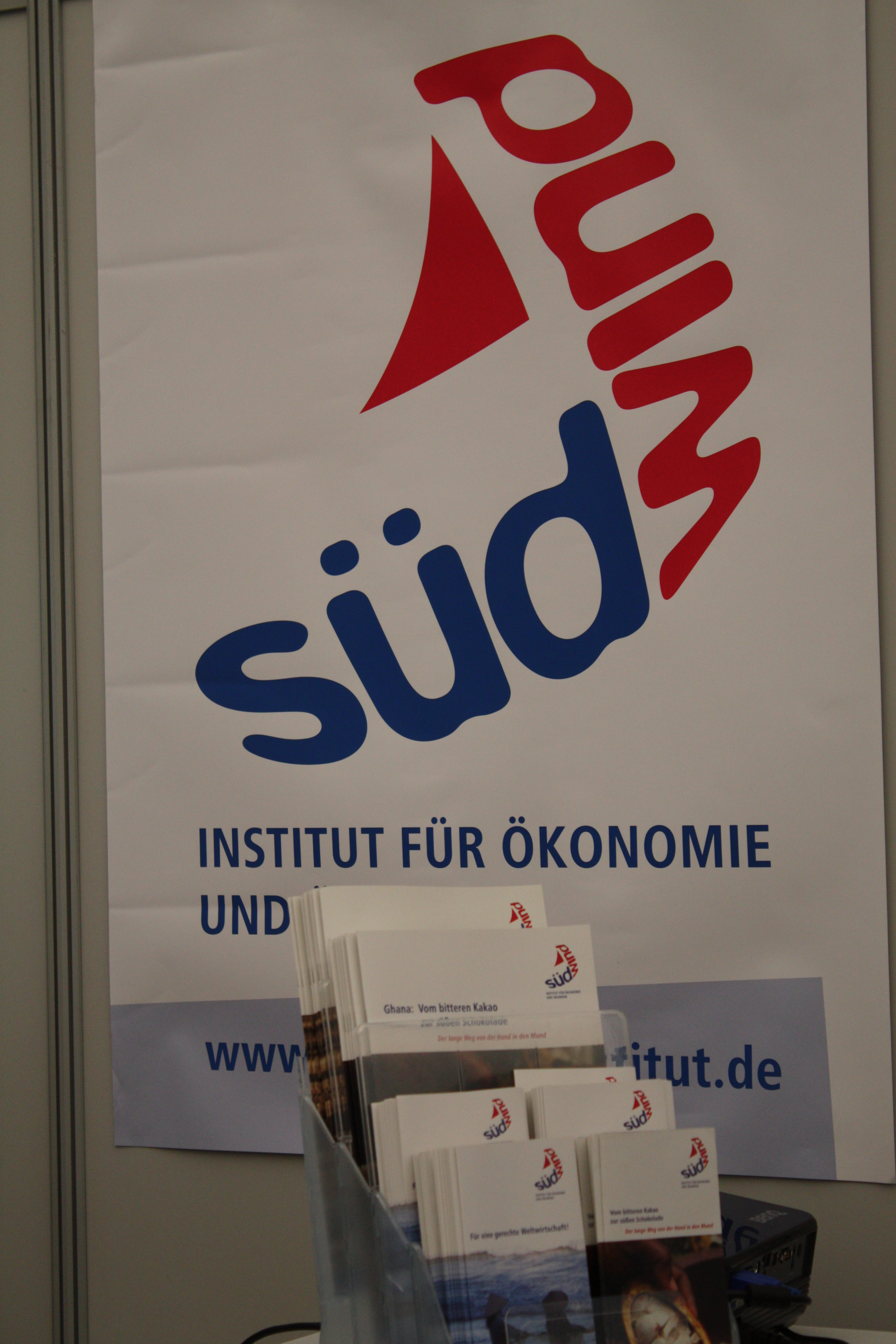 Poster and information material of Südwind-Institut.